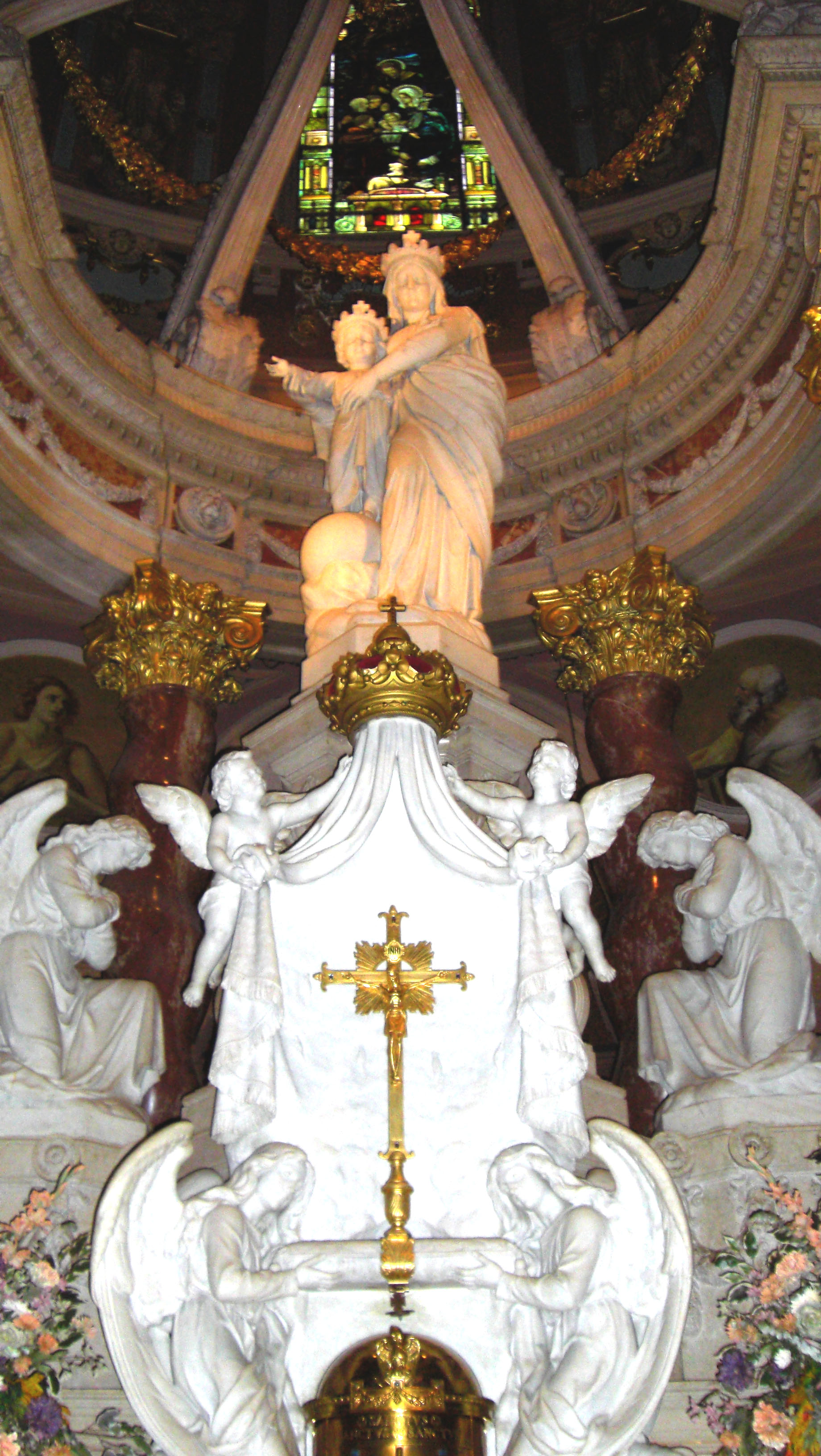 Detail of the 9 feet (2.7 m) tall, 1,600 pounds (730 kg) statue of Our Lady of Victory in Our Lady of Victory Basilica in Lackawanna, New York.